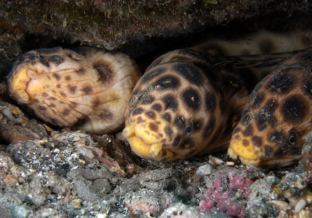 Myrichthys pardalis - Leopard eel / Carmelita / Anguille léopard, Tenerife.